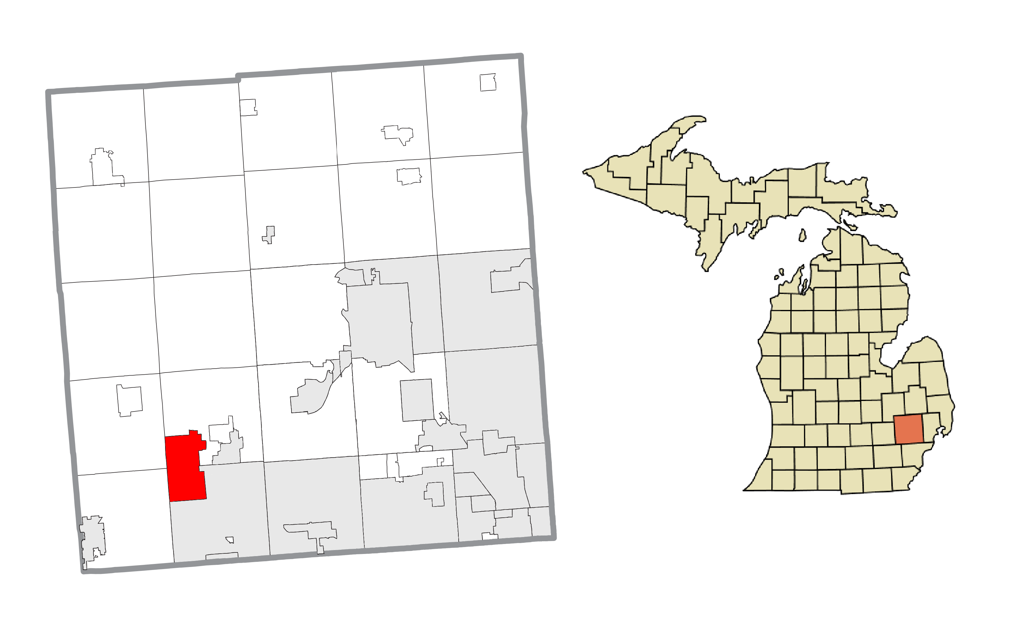 Wixom, MI